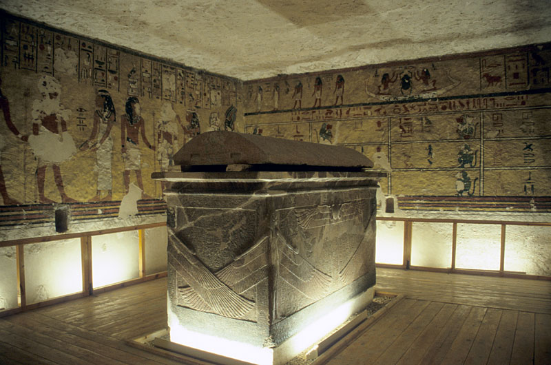 Tomb of Ay, KV 23, tomb chamber, West Valley, Luxor West Bank, Egypt